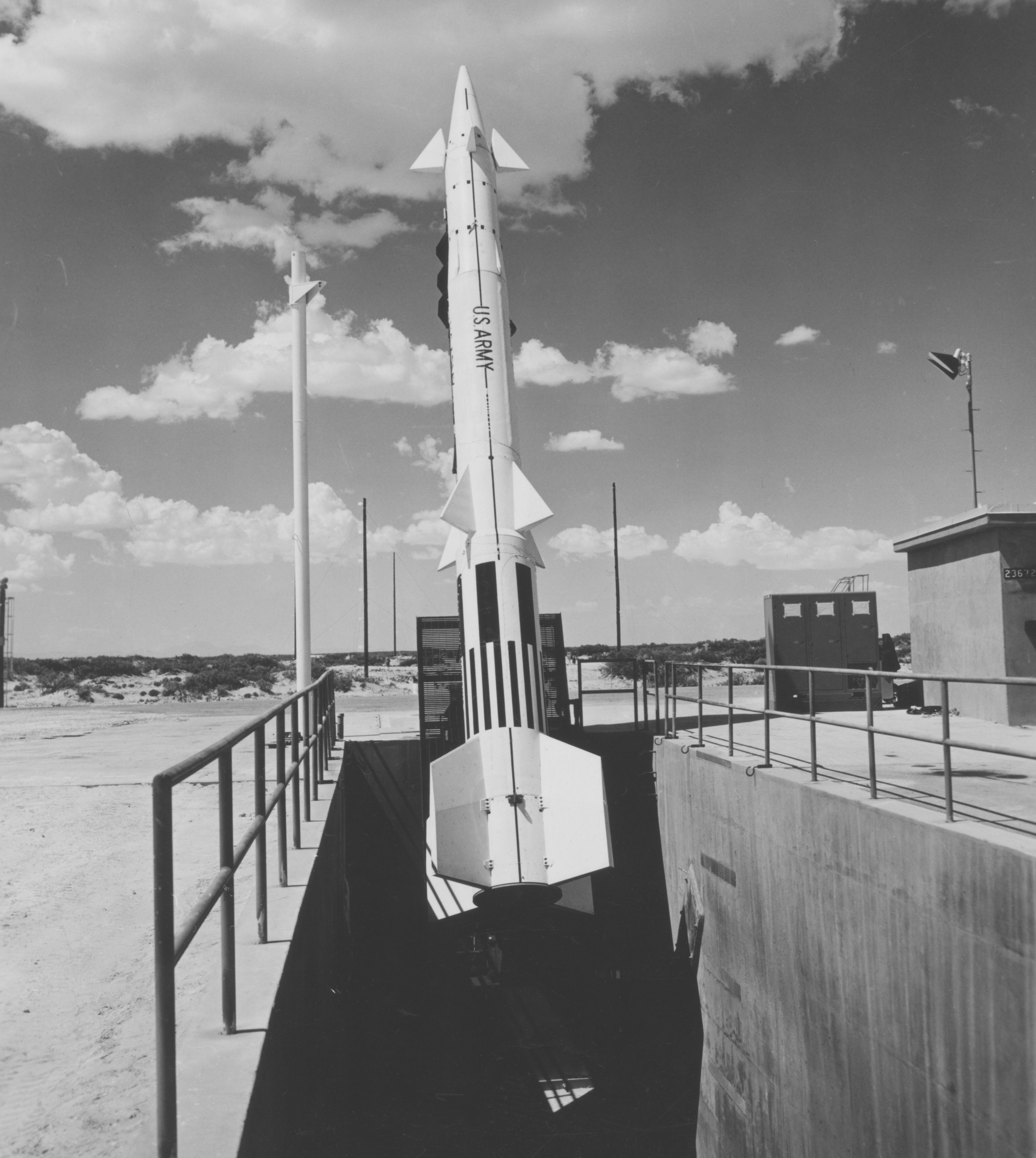 Static test of new Nike Zeus ZW-9 Configuration at WSMR - 10 Aug 1960